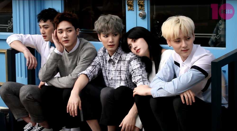 NU'EST 10asia April, 2016